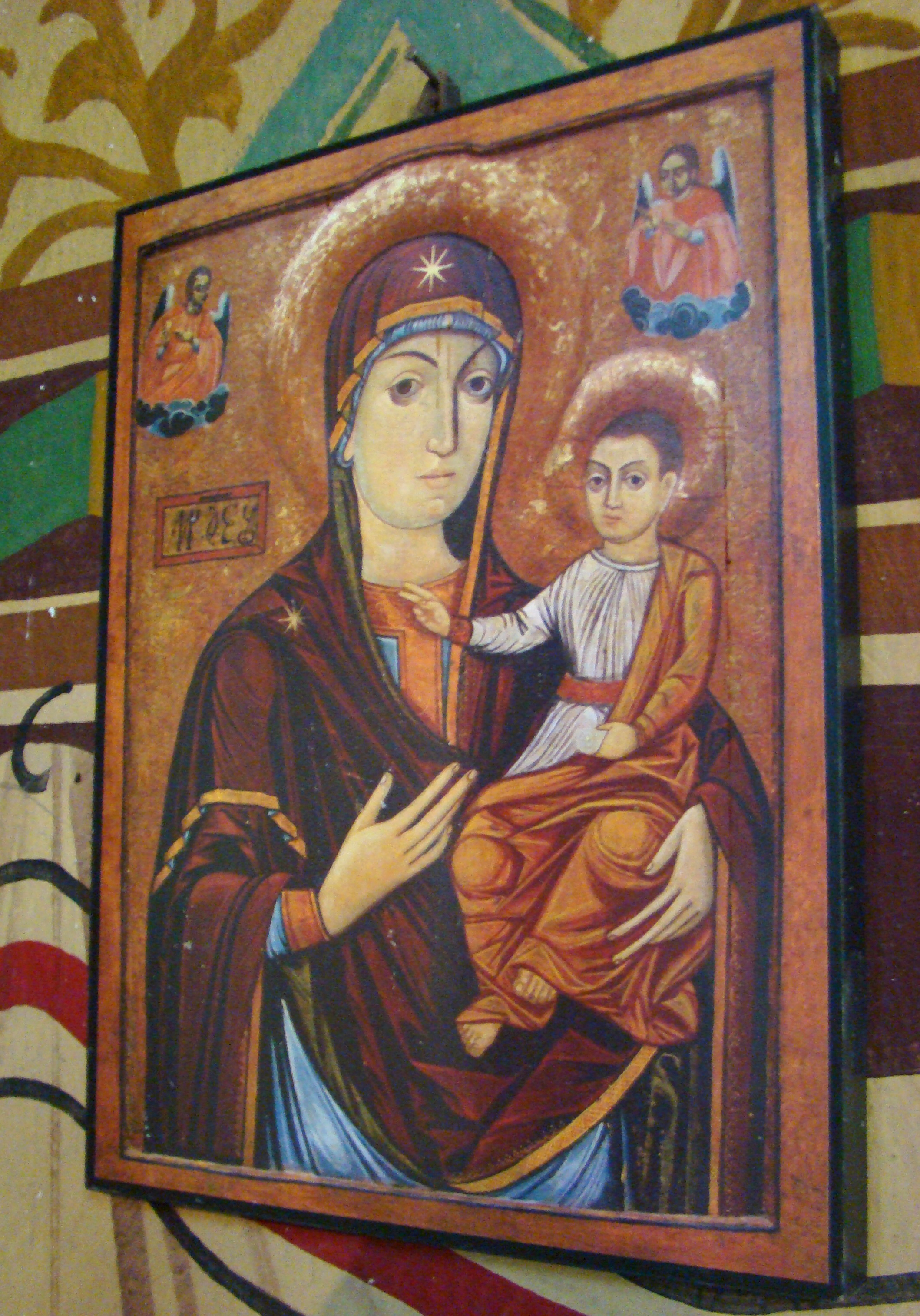 Orthodox church in Diviciorii Mari, Cluj county, Romania